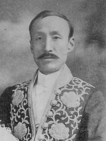 Cho Jung-eung